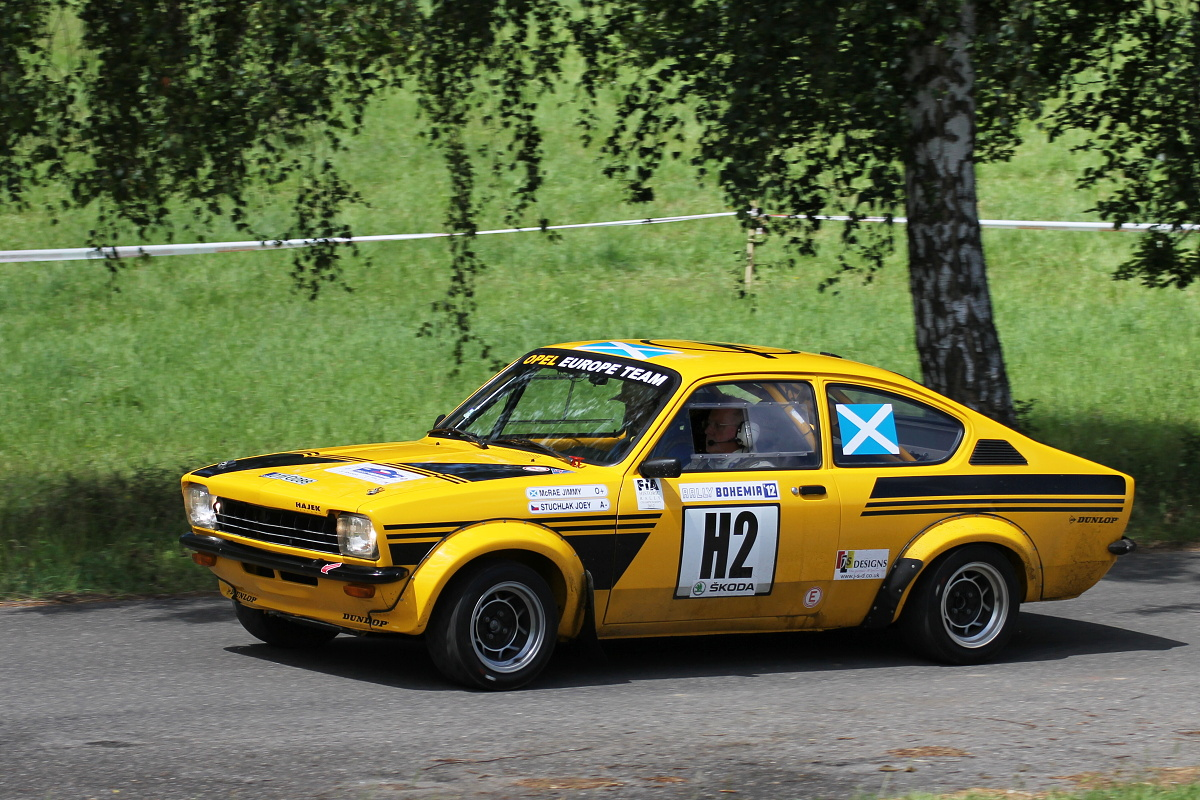 H2 Jimmy McRae - Jozef Stuchlak (GBR / CZE) - Opel Kadett C GT/E 16V / group 4 /, Rally Bohemia 2012